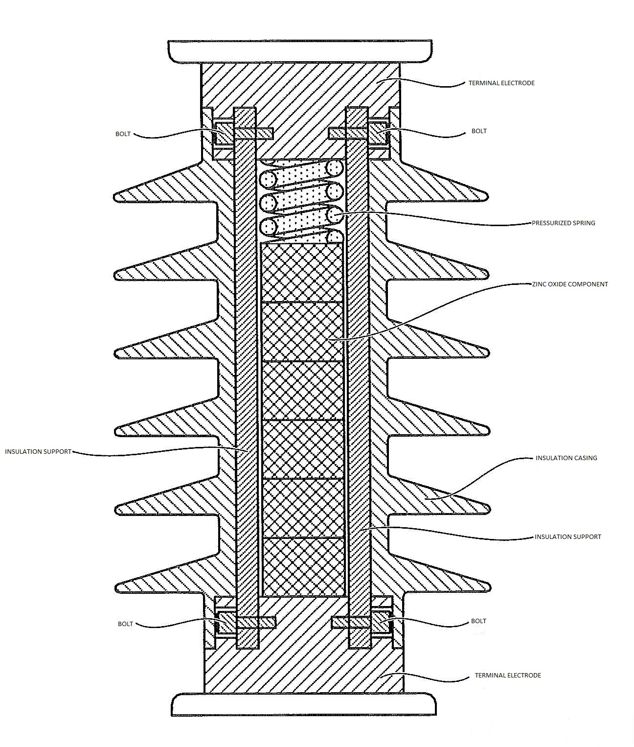 Detailed View